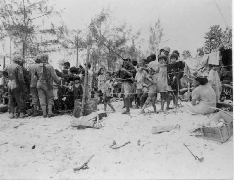 Saipan. Jap civilians in temporary internment camp under USMC guard. Combat scenes, Signal Corps. 10/01/1944. World War 2. W-CPA-44-5881. 6/17 Gurtcheff [photographer?].Note: the caption was transcribed from the original WW2 record.